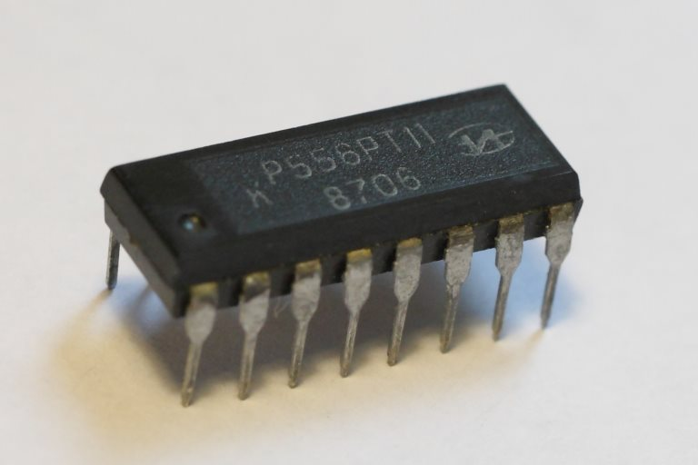 USSR integrated circuit KR556RT11, PROM 256x4, equivalent to 93427C